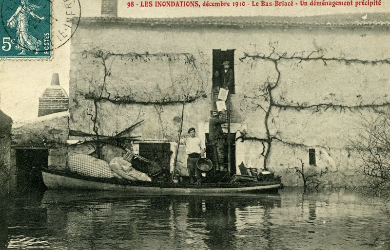 Flood of december 1910. Bas-Briacé, le Landreau (Fr-44).